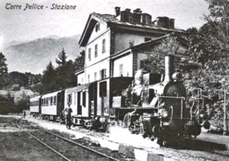 Torre Pellice railway station with steam